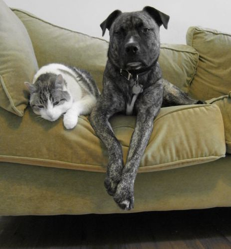 An 11-year old tabby cat and a mixed Molosser breed dog Author: Ohnoitsjamie